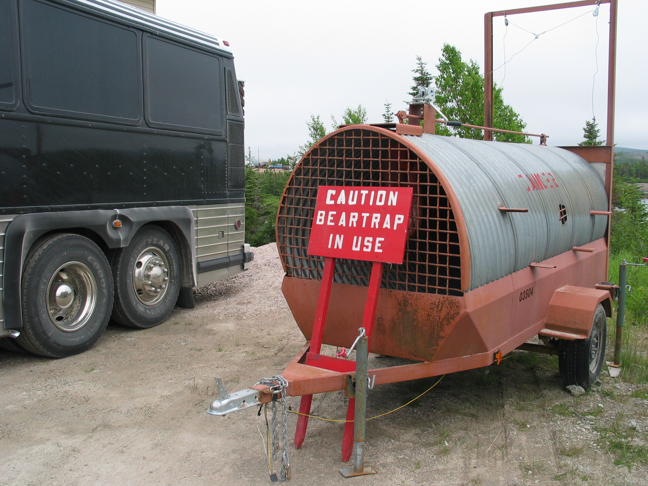 1Bear trap placed in the parking lot of a Mary's Harbour Hotel.